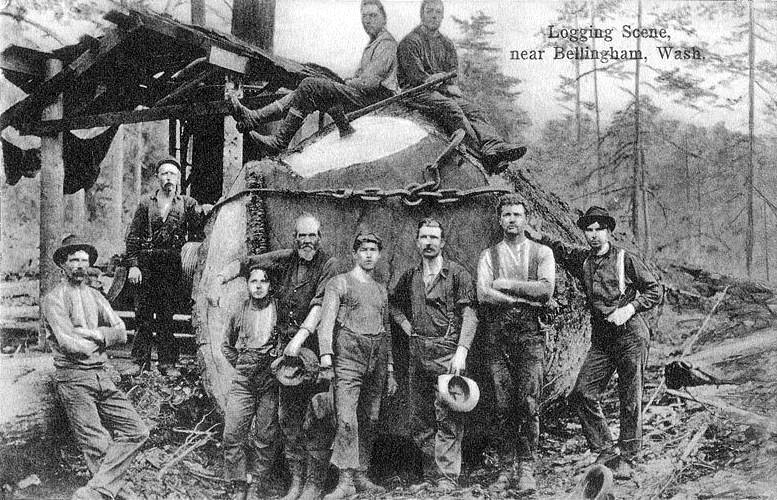 Logging scene, near Bellingham, WA; from a c. 1910 postcard published by Sprouse & Son, Importers & Publishers, Tacoma, Washington.